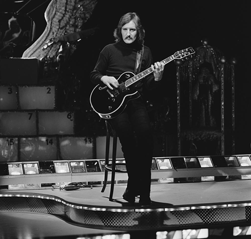 Jan Akkerman in AVRO's TopPop (Dutch television show) in 1974